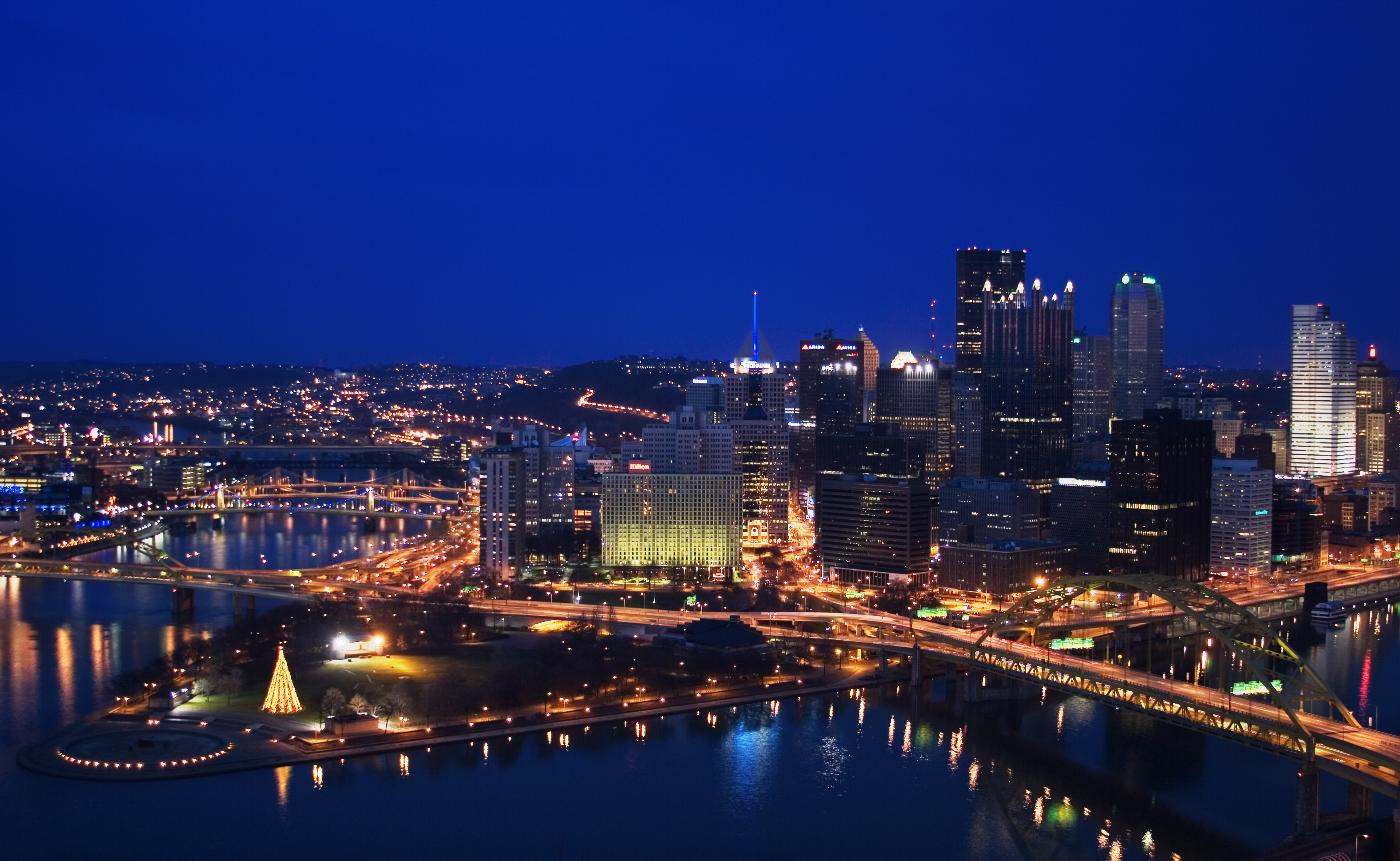 My second attempt at HDR. Taken from the top of the Duquesne Incline.